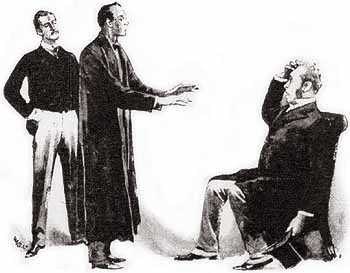 Sherlock Holmes in " The Adventure of the Beryl Coronet", which appeared in The Strand Magazine in May, 1892. Original caption was "WITH A LOOK OF GRIEF AND DESPAIR."